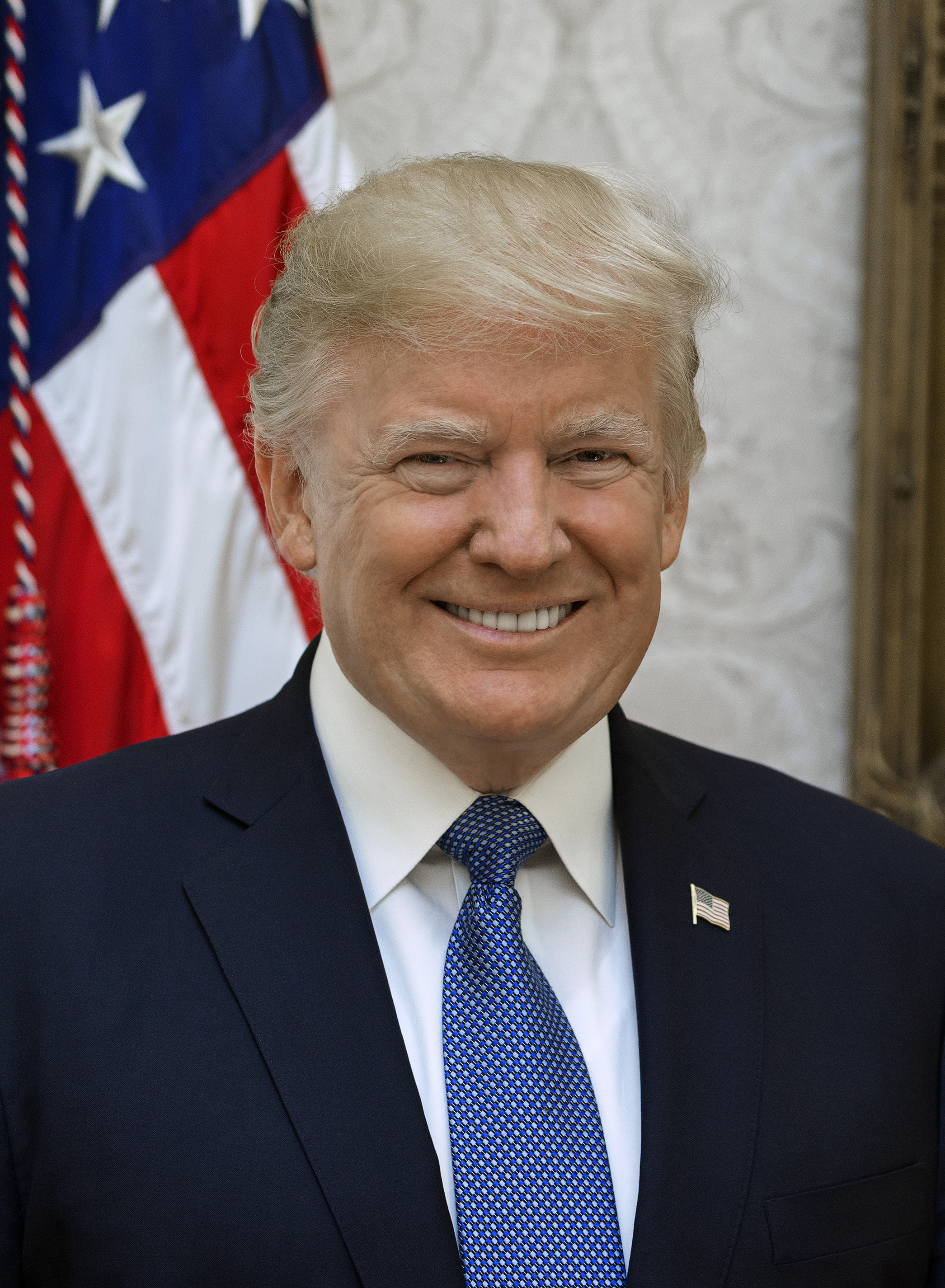 President Donald Trump poses for his official portrait at The White House, in Washington, D.C., on Friday, October 6, 2017. (Official White House Photo by Shealah Craighead)